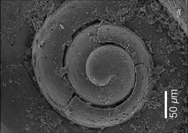 Apical view of the protoconch of Atlanta lesueurii from the Pliocene. Locality: Roxas, Pangasinan, Luzon, Philippines. Registration number (RGM) 539 764.